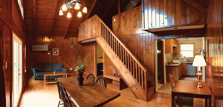 The Cabins with a Loft, located in the woods by the Swan lake, can fit up to 6 guests. They are within walking distance of the temple. They have: a full kitchenette, living room area, dining area, an outdoor porch, one king bed, two double beds, and one attached/private bathroom. Cooking pots are not provided. These cabins have one bedroom downstairs and a loft (an upstairs, open bedroom).